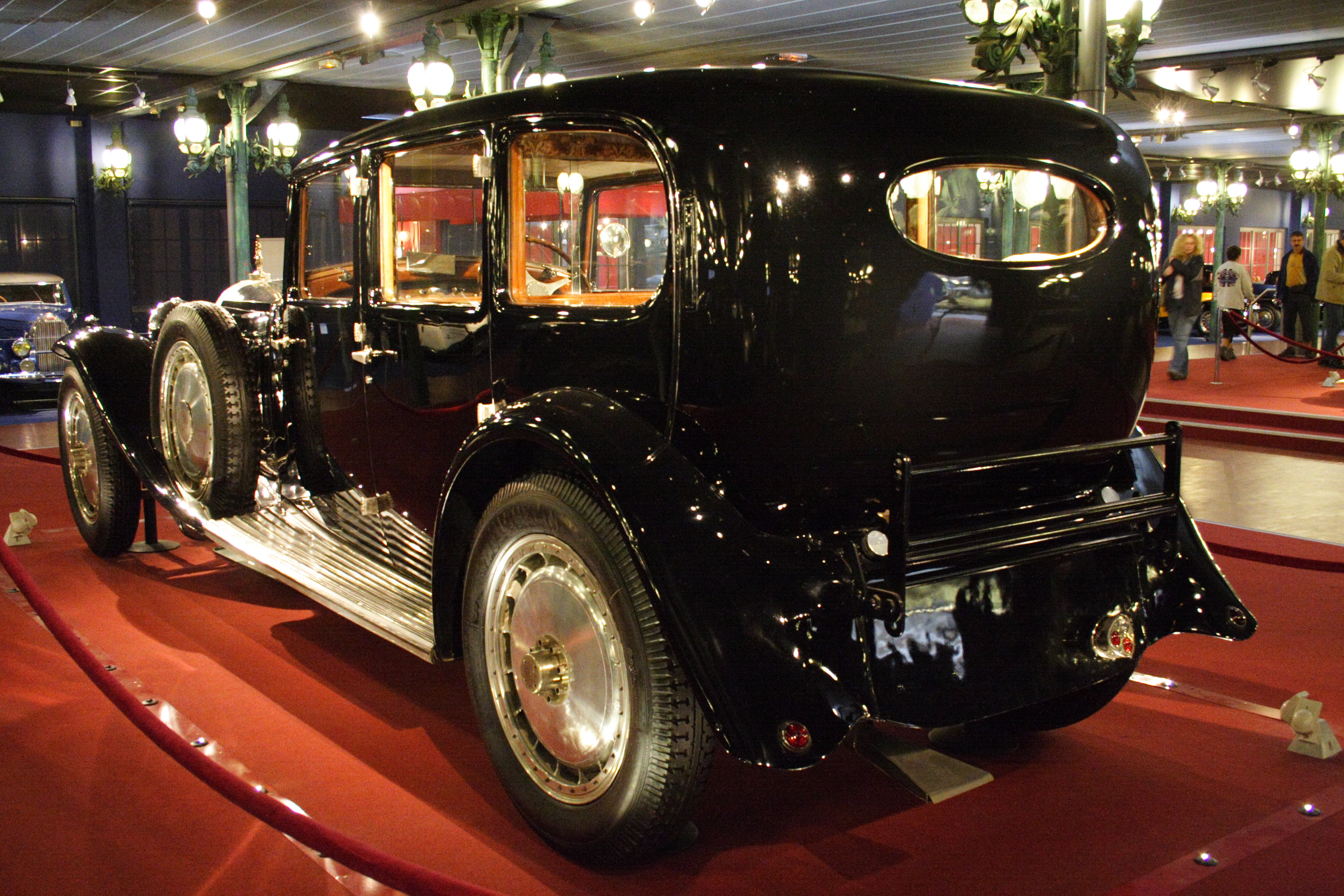 Bugatti Limousine Type 41 1933 at the Musée National de l'Automobil(Mulhouse, France)